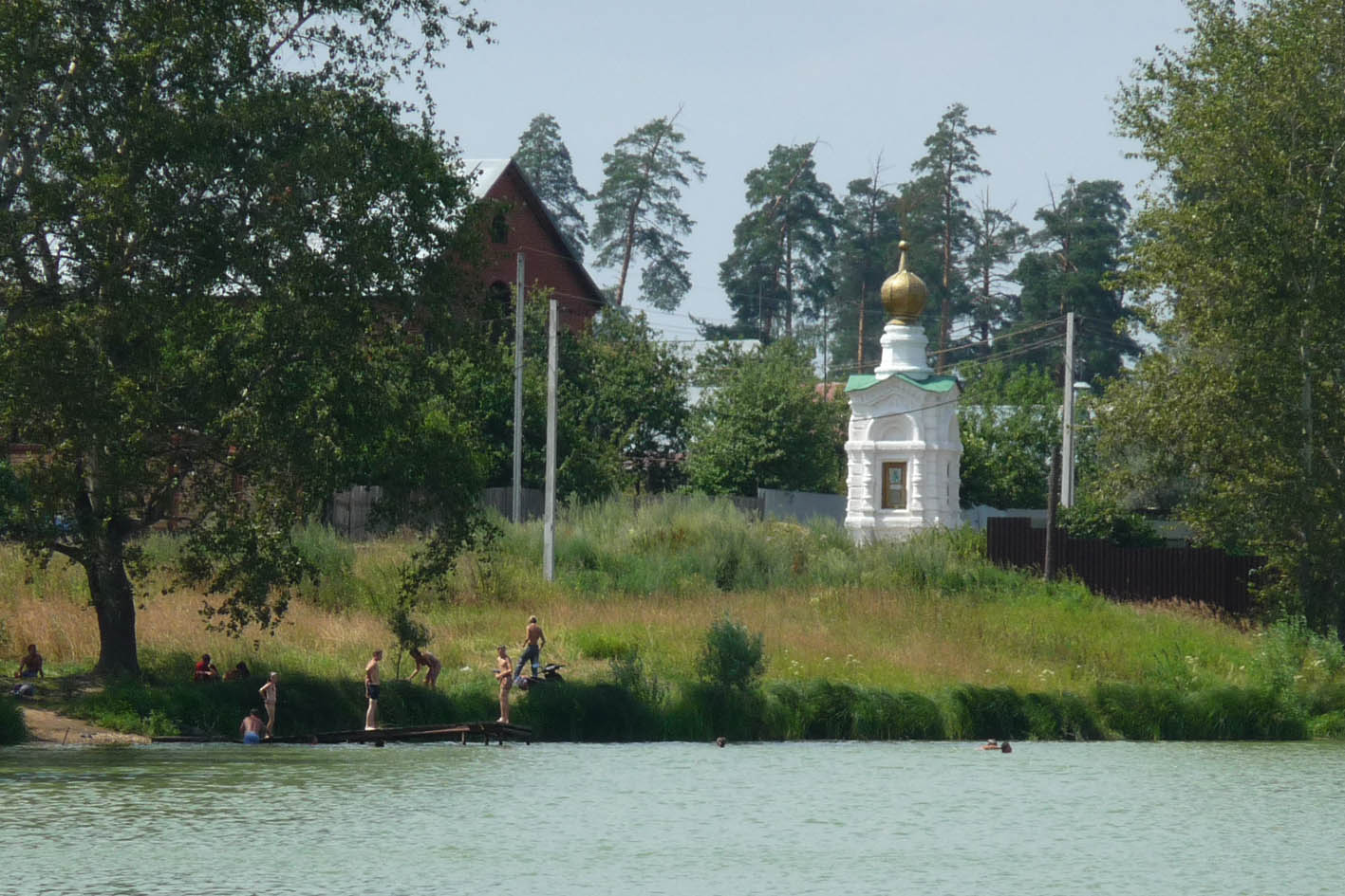 The Chapel (1905) and the bank of the Barsky ponds in the village of Staraya Sloboda. Shchyolkovsky district, Moscow oblast, Russia.